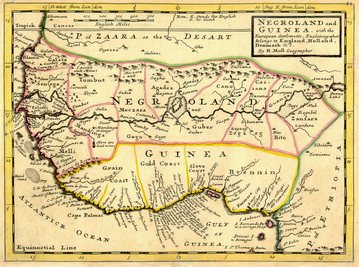 This is a map created in 1736 by Europeans. It depicts many major traidng ports.